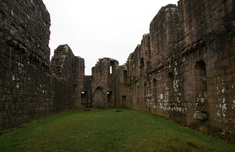 Morton Castle, Dumfries and Galloway, Scotland